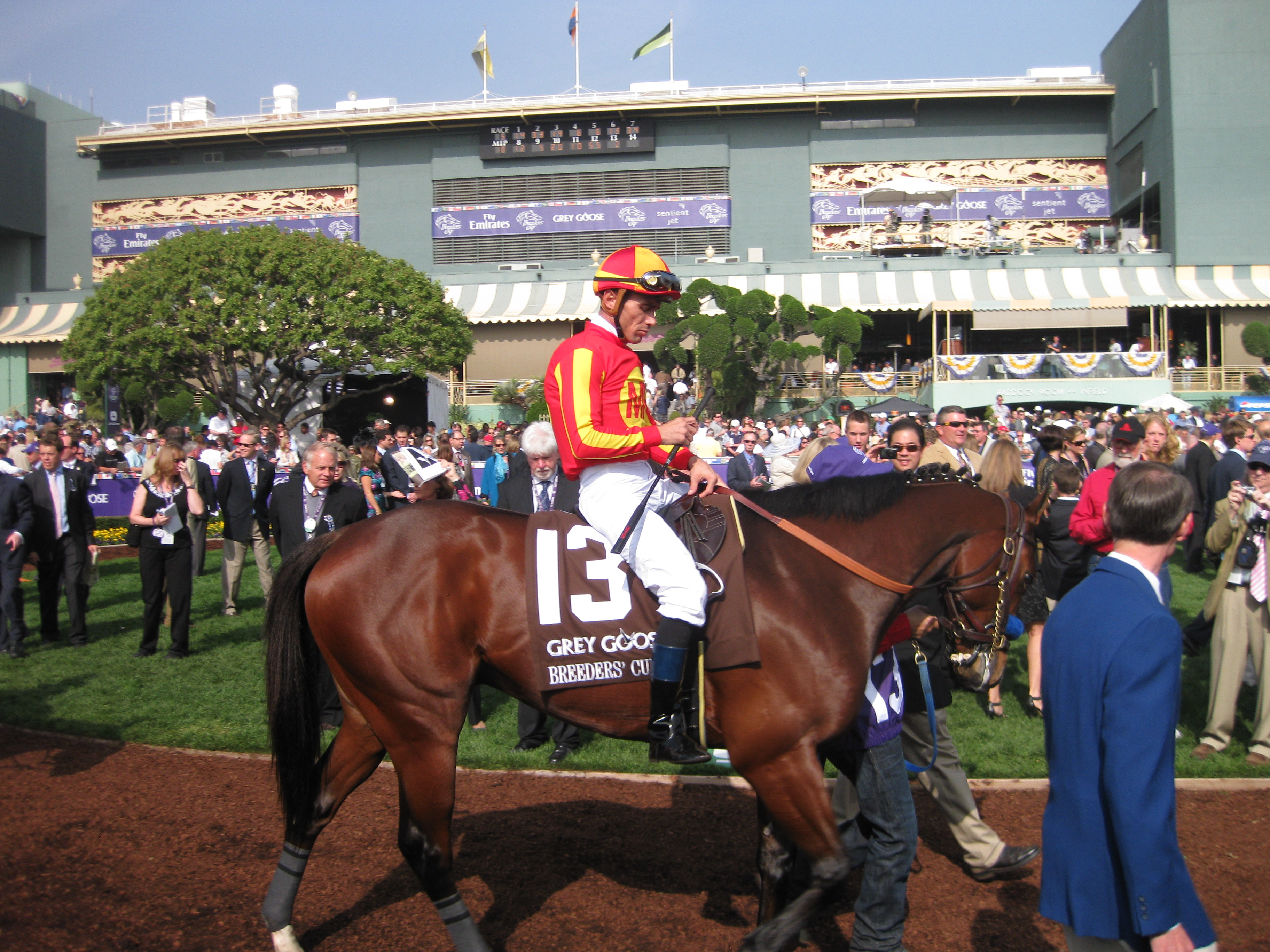 Lookin at Lucky at 2009 Breeder's Cup Juvenile, he finished second to Vale of York. Ridden by Garrett Gomez